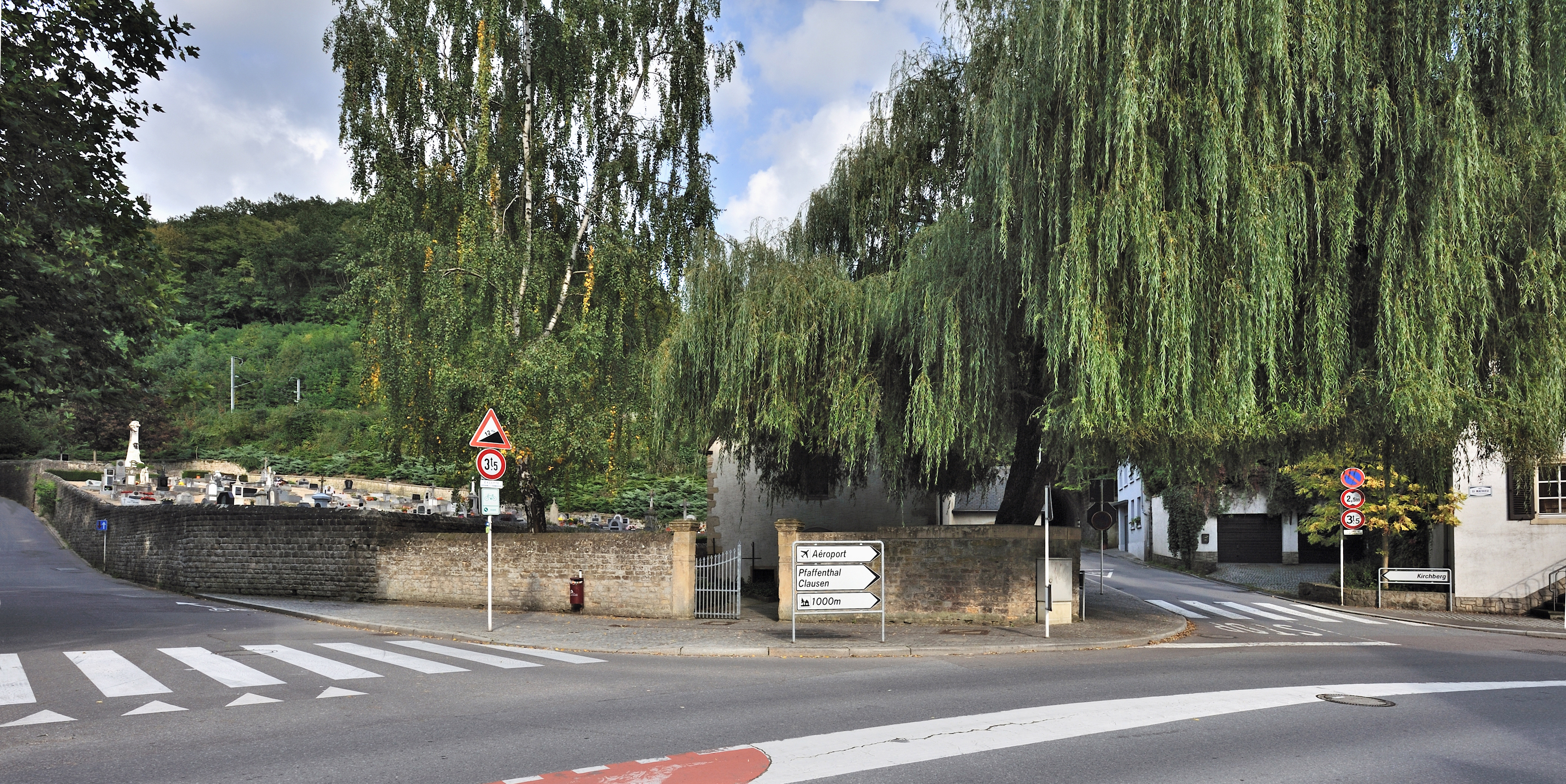 Luxembourg City, Sichenhaff (quarter of Pfaffenthal) in the Alzette valley.